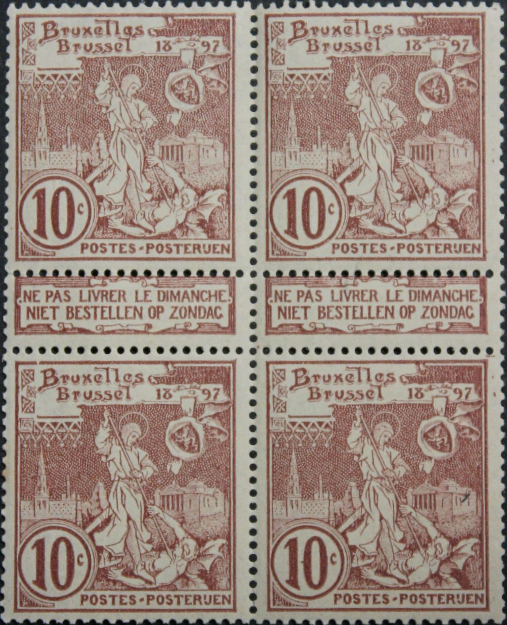 Belgium 1896 Block